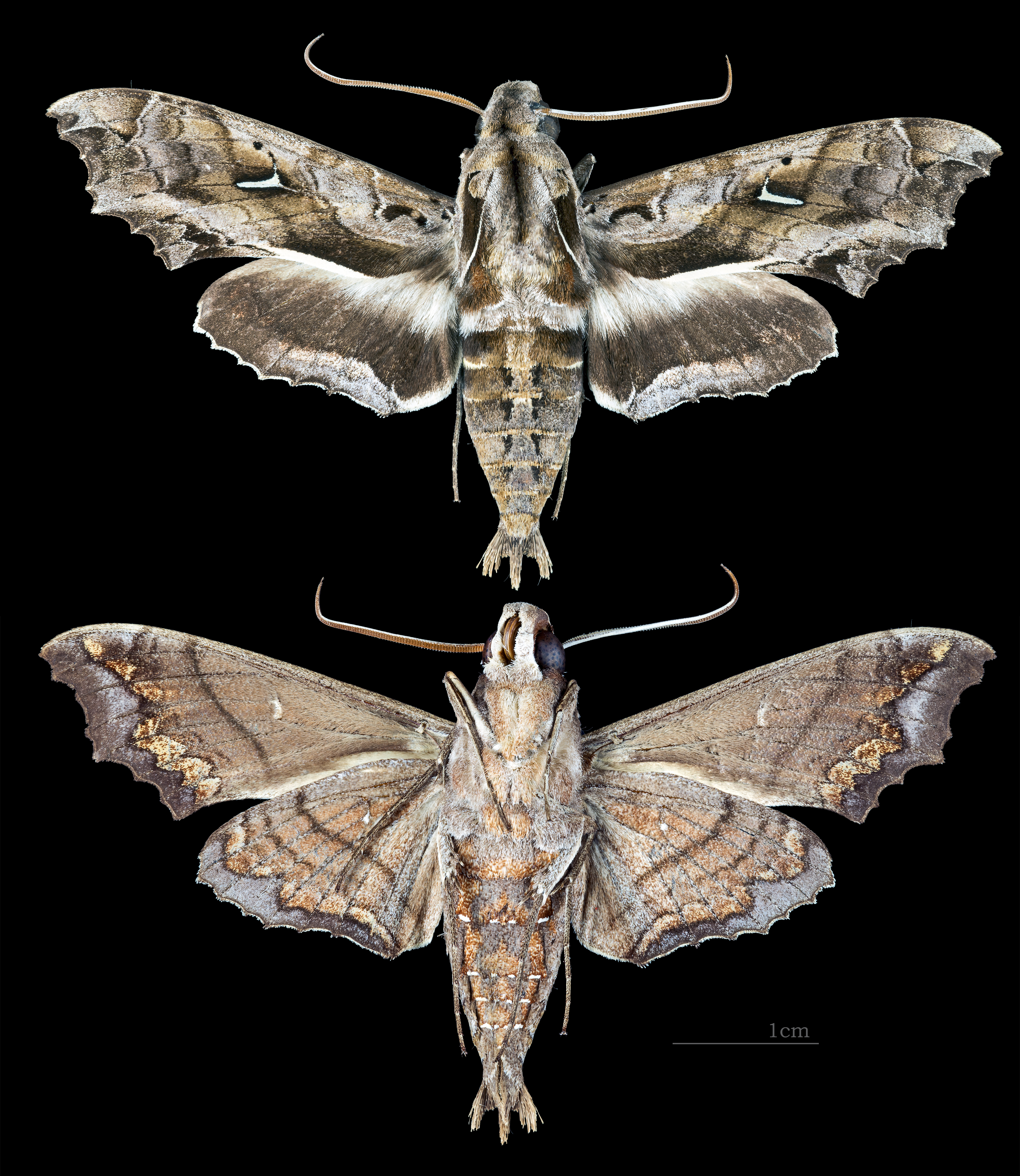 Hemeroplanes triptolemus - Two views of same specimen Collection of the Mathematician Laurent Schwartz